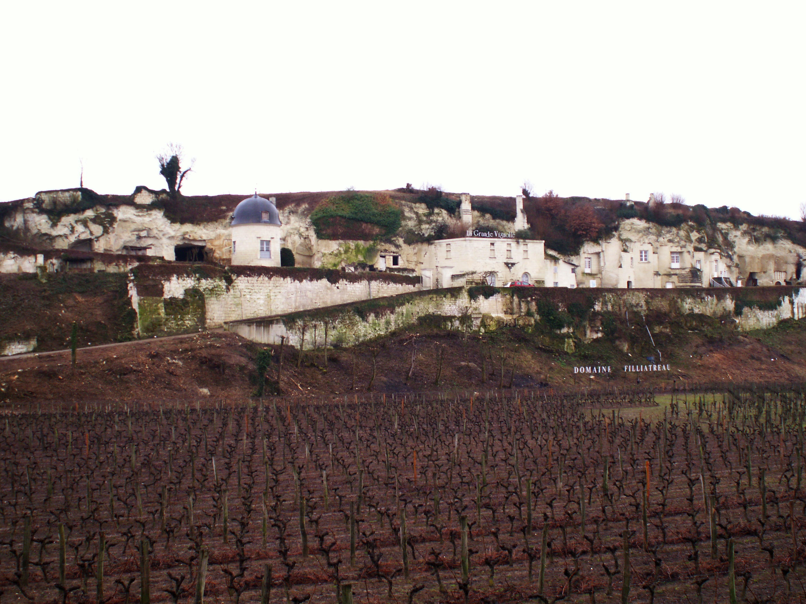 Vineyards in the French wine region of Saumur in the Loire Valley during winter dormancy.